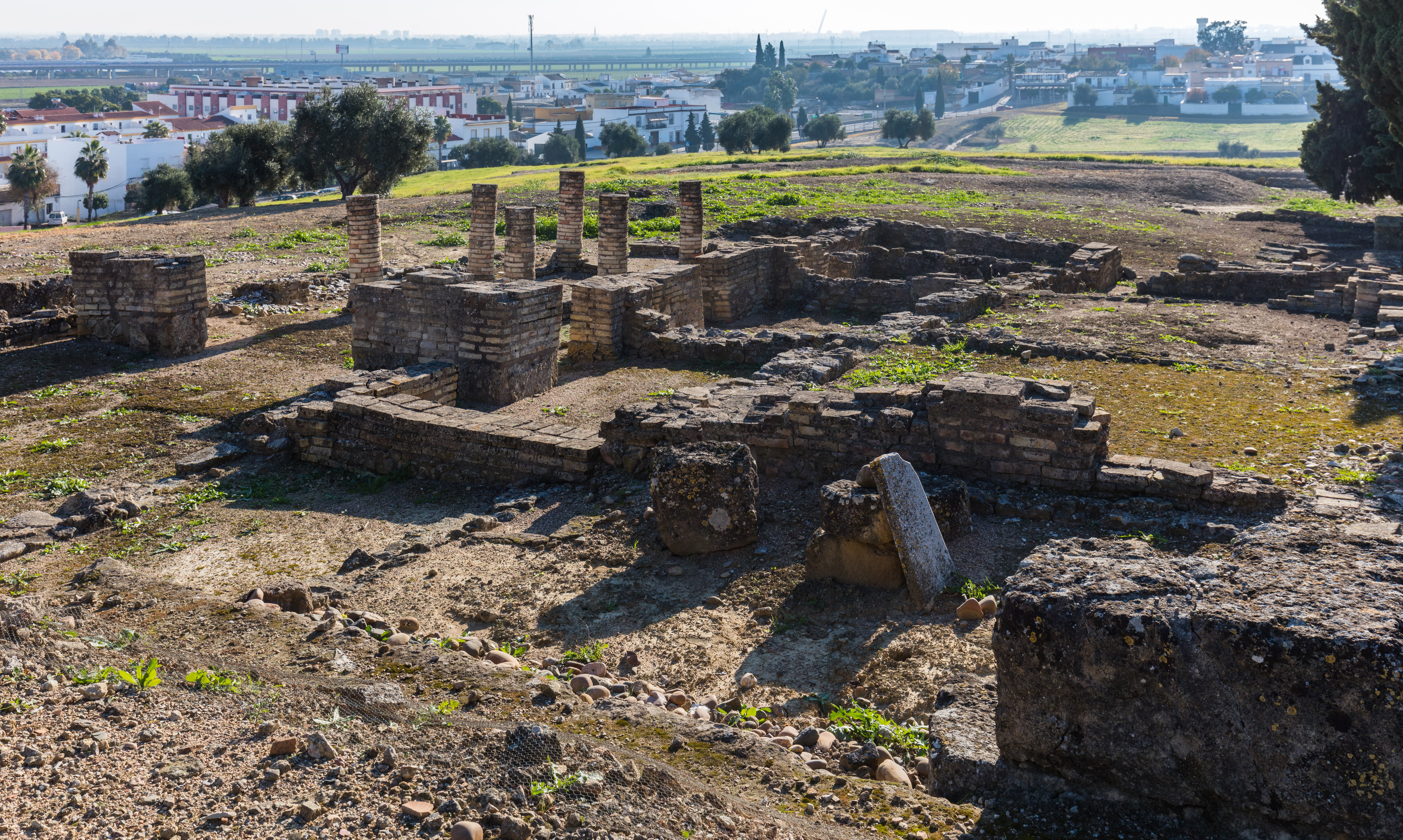 Settlements, ancient roman city of Itálica, Santiponce, Seville, Spain